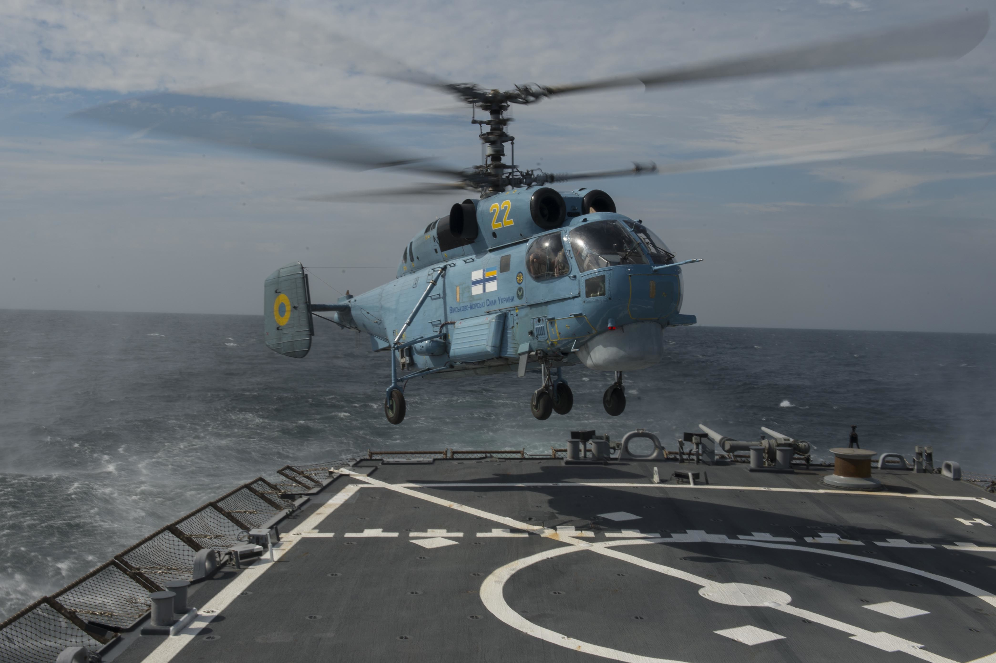 A Ukrainian KA-27 Helicopter lands aboard the guided-missile destroyer USS Donald Cook (DDG 75). Donald Cook is participating in exercise Sea Breeze 2015, an air, land and maritime exercise designed to improve maritime safety, security and stability in the Black Sea.